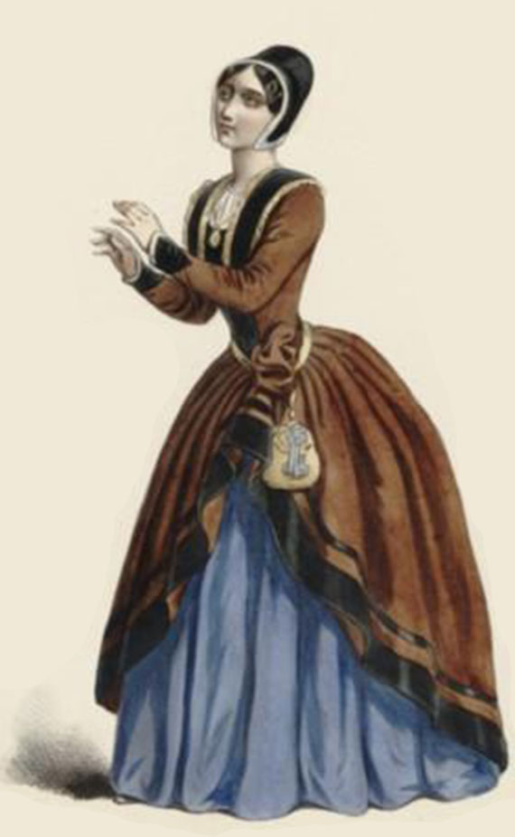 Pauline Viardot as Fidès in the original production of Meyerbeer's opera "Le prophète"